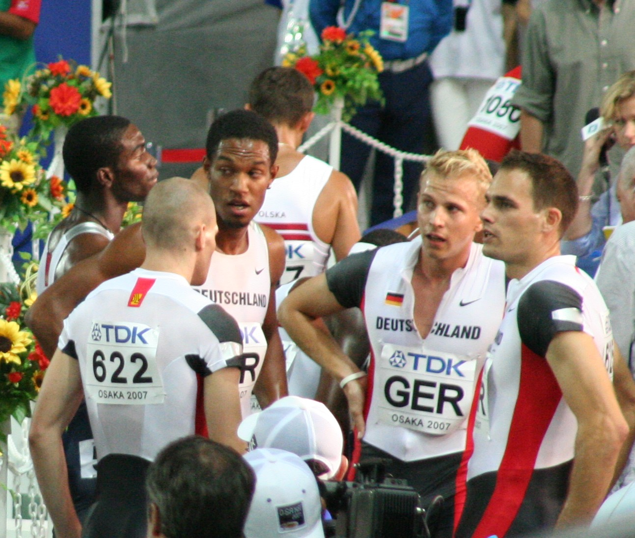 World Athletics Championships 2007 in Osaka - German 4*400 metres relay team after their semifinal. Simon Kirch, Kamghe Gaba, Bastian Swillims, Ingo Schultz